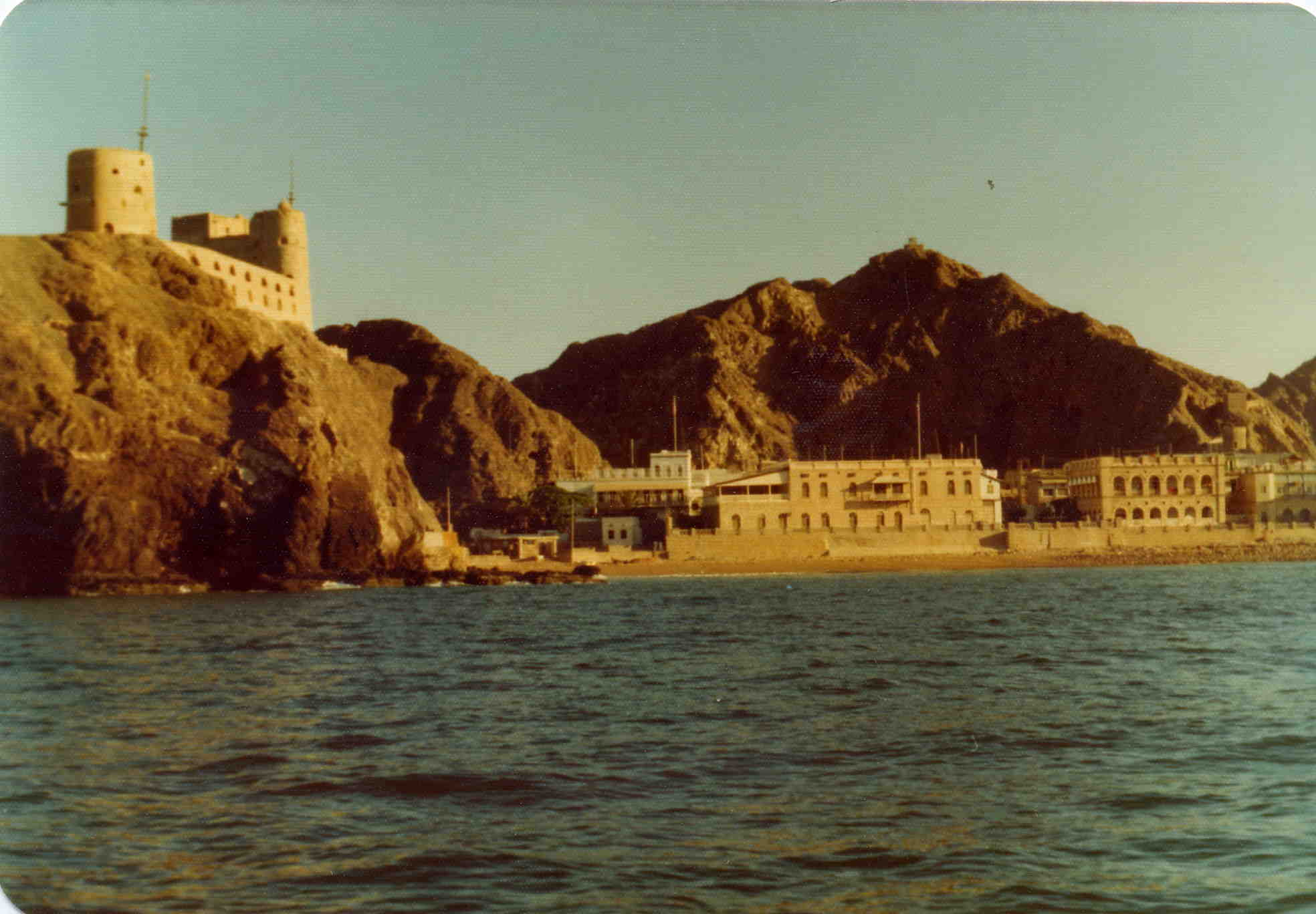 Fort Jalali dominating Muscat Harbour.